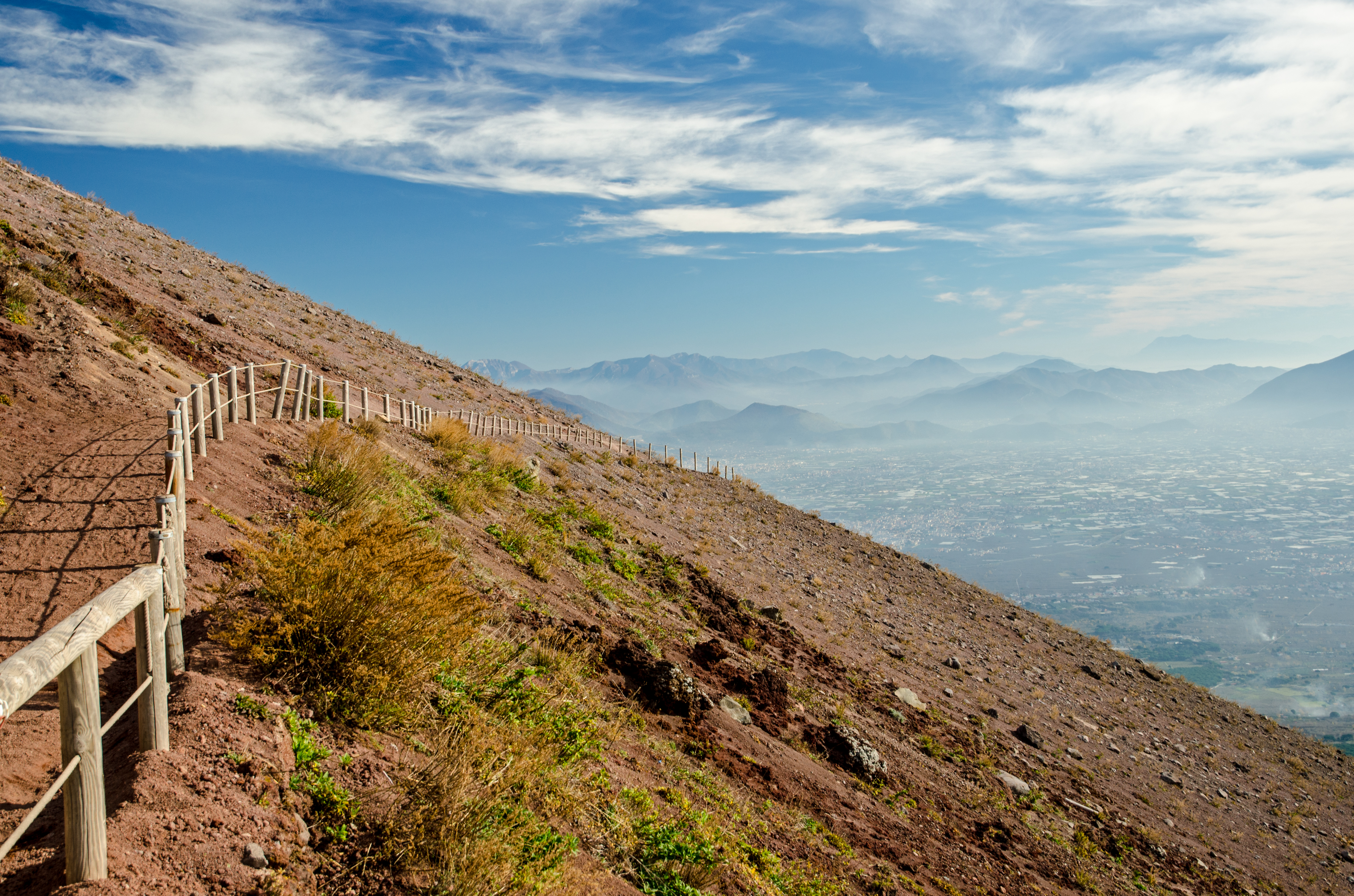 This is an image of the Biosphere Reserve: Somma-Vesuvio and Miglio d'Oro Biosphere Reserve